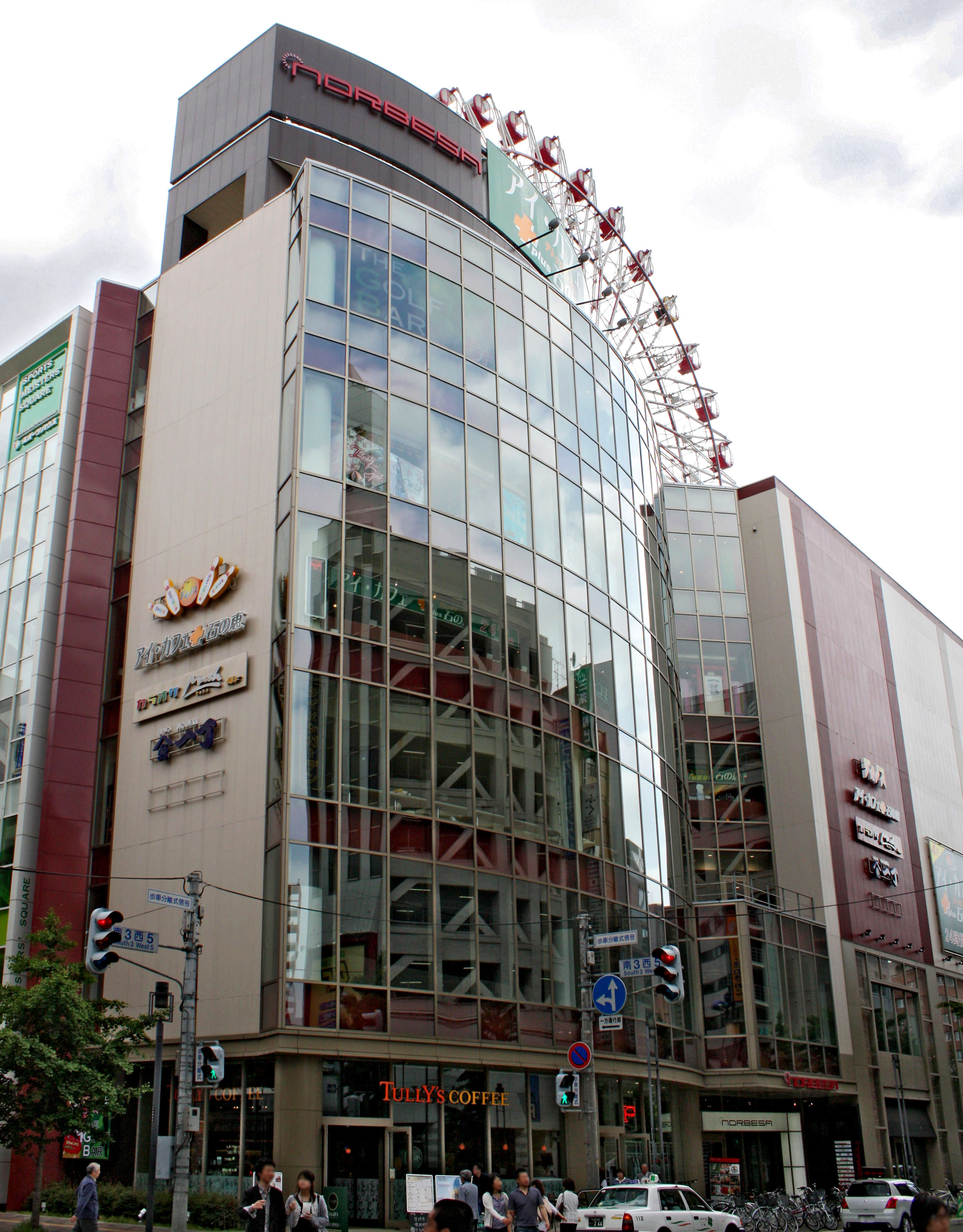 NORBESA. It is the shop in Sapporo, Hokkaido, Japan.